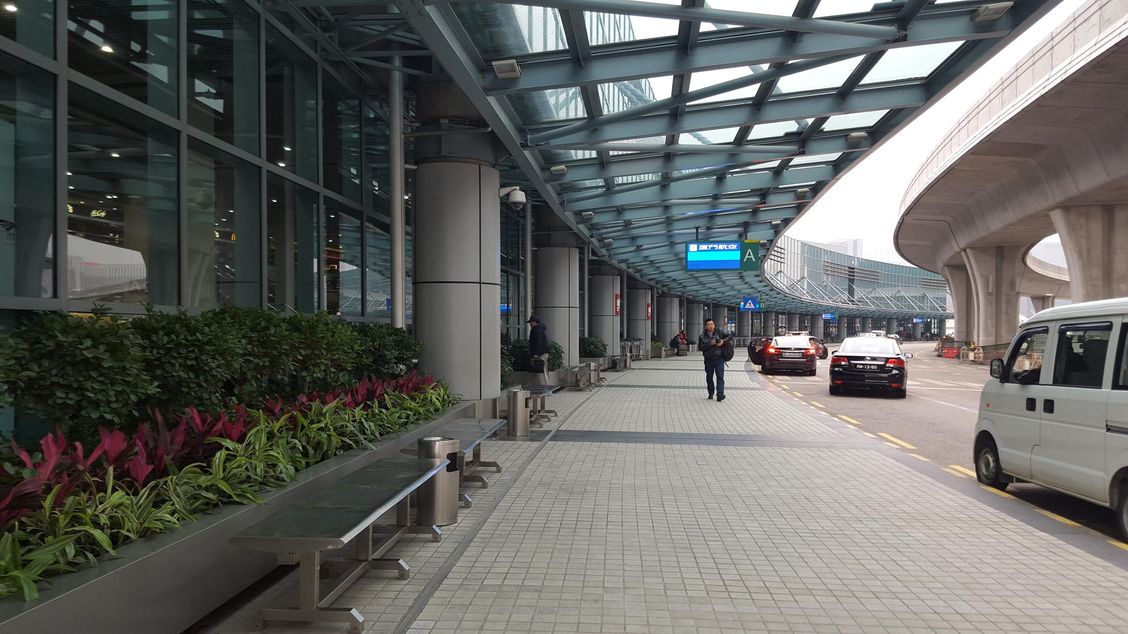 Terminal of Macau International Airport